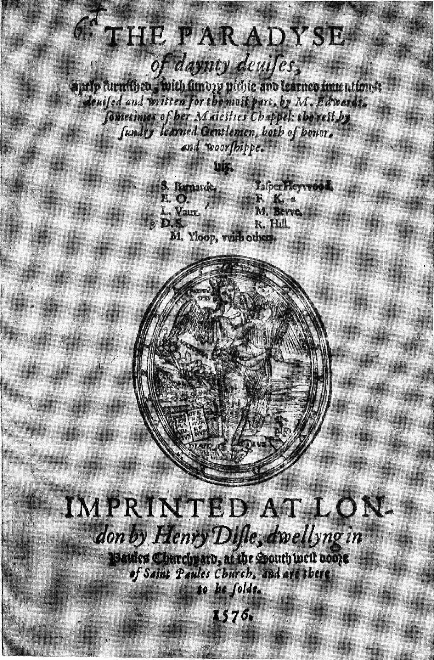 Title page of The Paradyse of daynty deuises (1576)